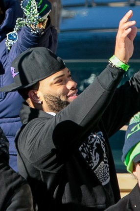 Daniels during the Super Bowl victory parade in Seattle, 02.05.2014